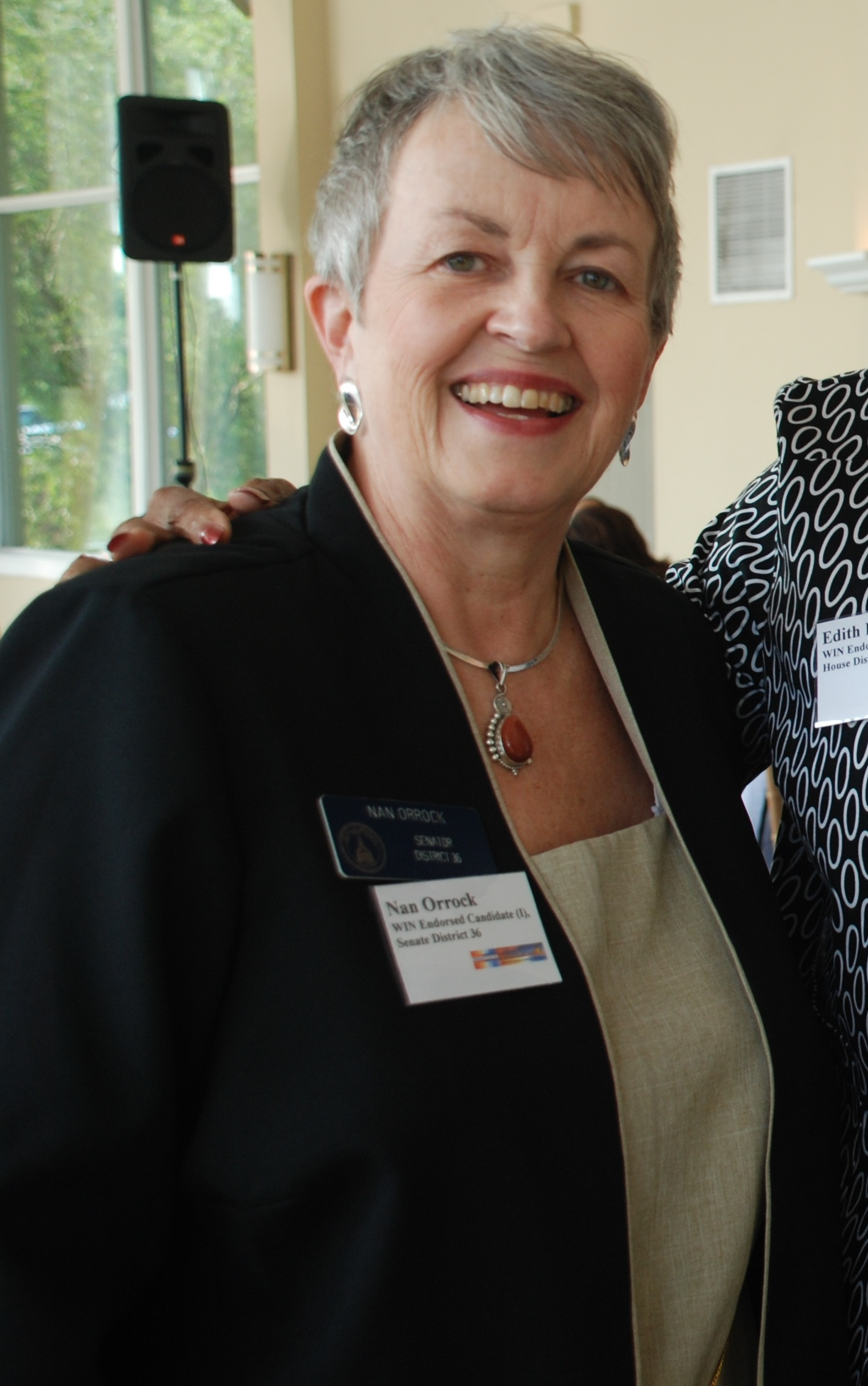 Georgia State Senator Nan Orrock.